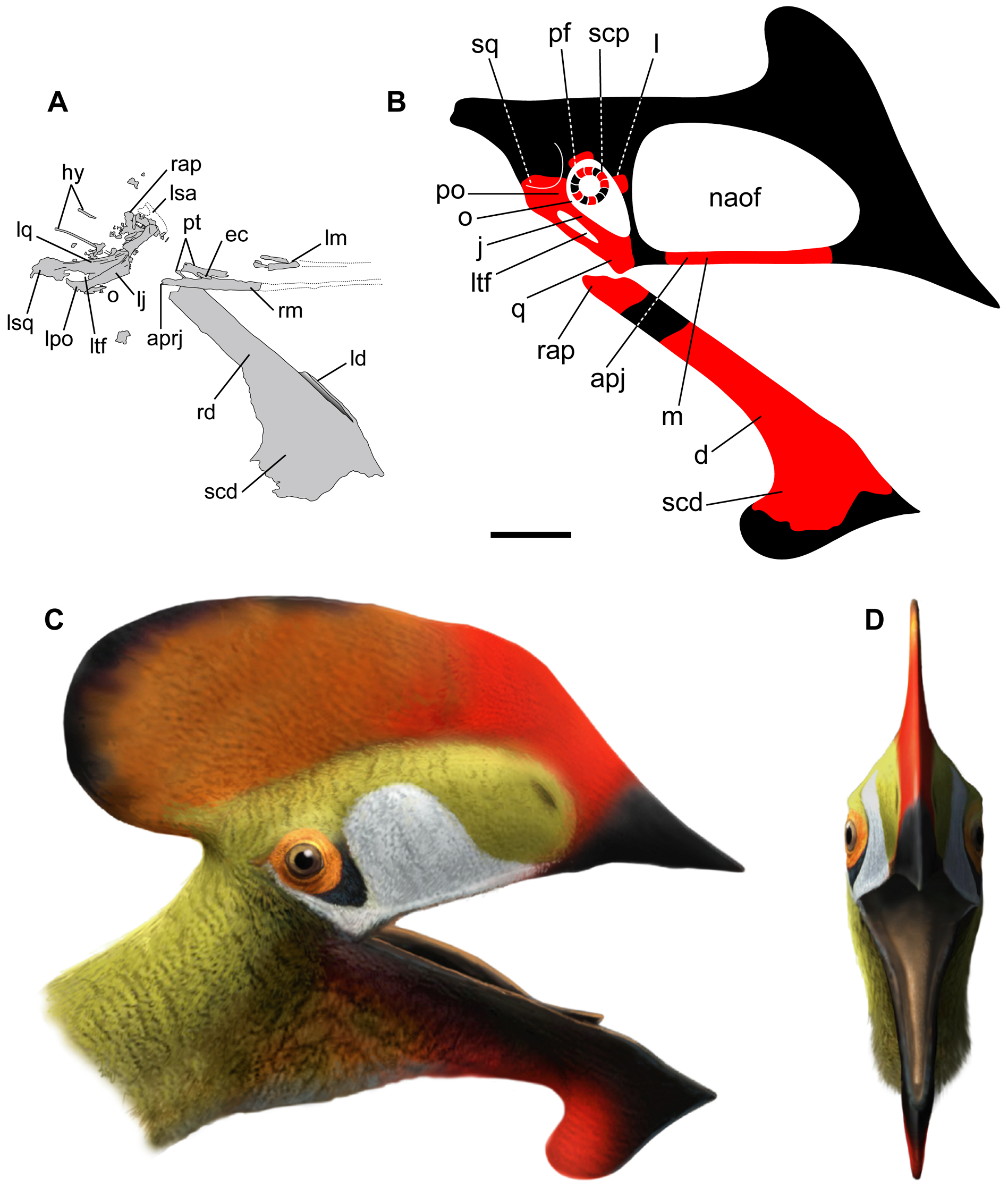 Line drawing of the holotype of Europejara olcadesorum gen. et sp. nov. and life restoration. (A) Interpretative line drawing of the skull as observed on the acid-prepared counterslab. (B) Reconstruction of the skull (based in part on Tapejara) showing preserved parts in red. Life restoration of the head of Europejara in (C) lateral and (D) frontal views. apj, anterior process of the jugal; aprj, anterior process of the right jugal; d, dentary; ec, ectopterygoid; hy, hyoids; j, jugal; l, lacrimal; ld, left dentary; lj, left jugal; lm, left maxilla; lpo, left postorbital; lq, left quadrate; lsa, left surangular; lsq, left squamosal; ltf, lower temporal fenestra; m, maxilla; naof, nasoantorbital fenestra; o, orbit; pf, postfrontal; po, postorbital; pt, pterygoid; q, quadrate; rap, retroarticular process; rd, right dentary; rm, right maxilla; scd, sagittal crest of the dentary; scp, scleral plates; sq, squamosal. Scale bar: 50 mm.